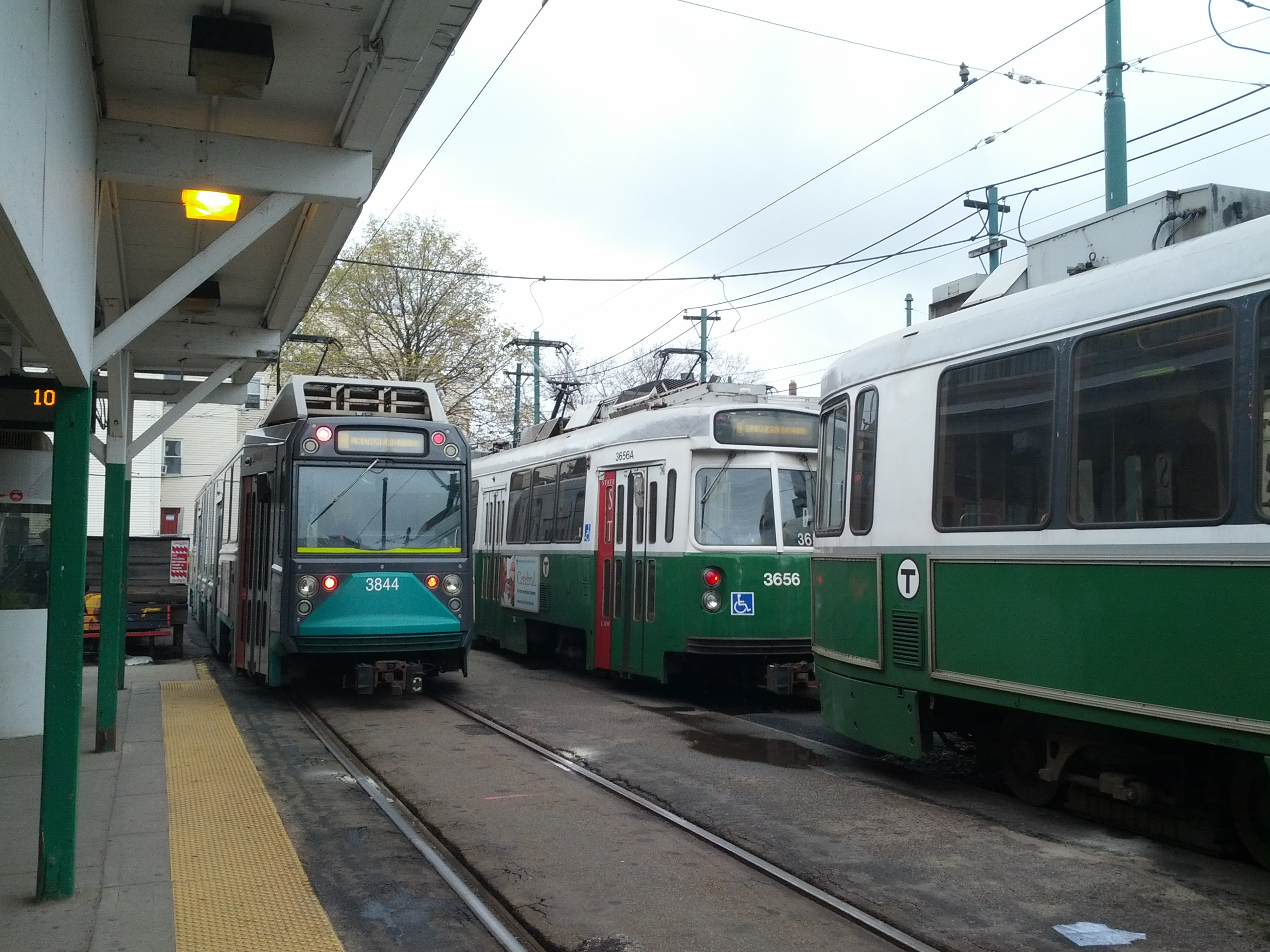 Type 8 (left) and Type 7 cars at Lechmere, with the inbound platform at left